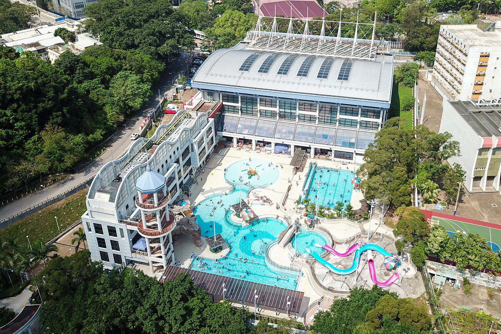 Shing Mun Valley Swimming Pool